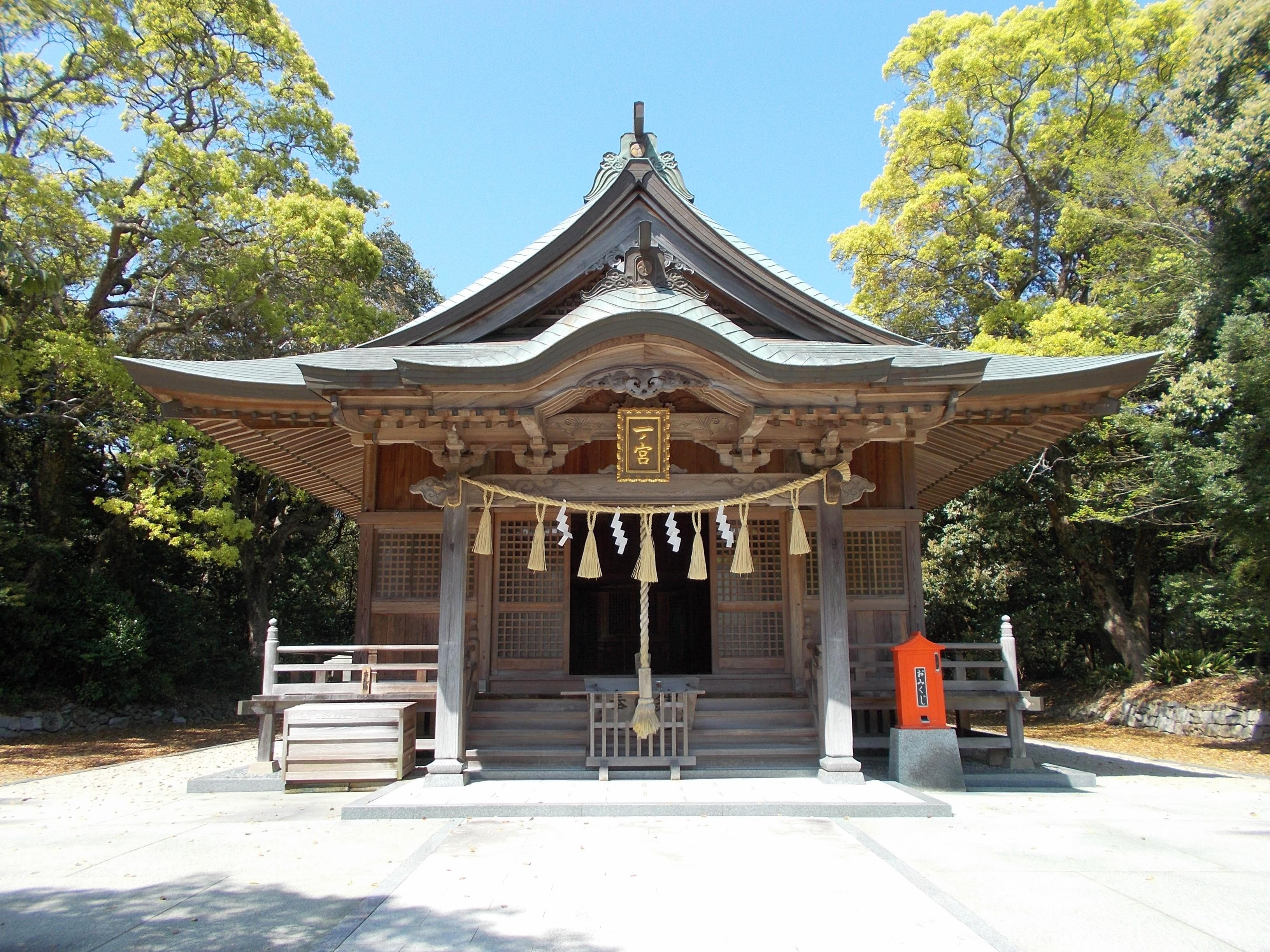 The Ichi-no-miya Haiden of Kagami-jinja, Karatsu, Saga, Japan.